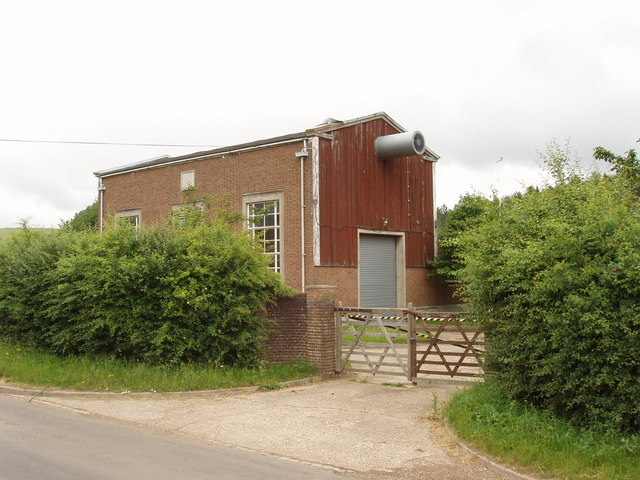 Pumping station, Chesham Vale. Near Nut Hazel Cross Farm